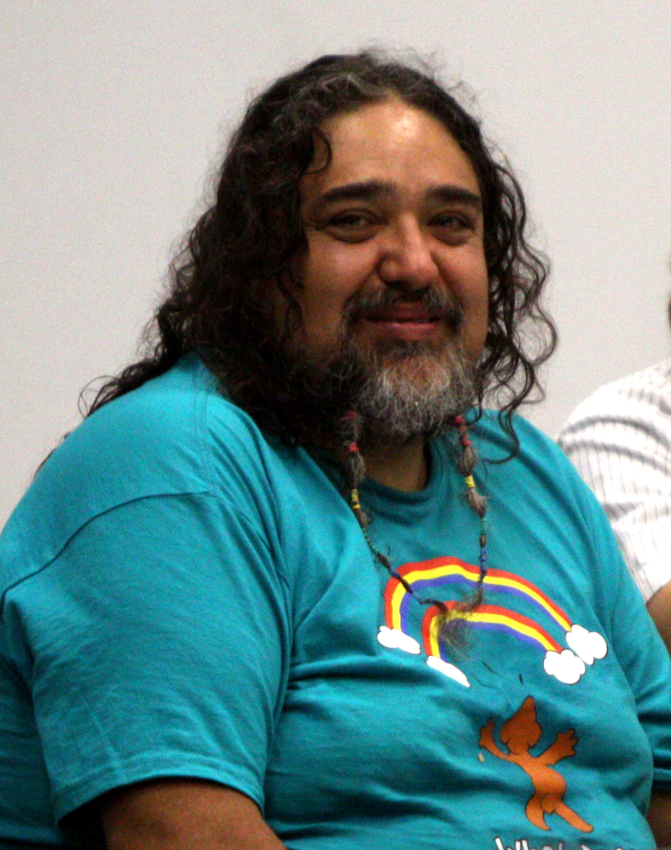 Paul "Bear" Vasquez at the 2012 VidCon in Anaheim, California.